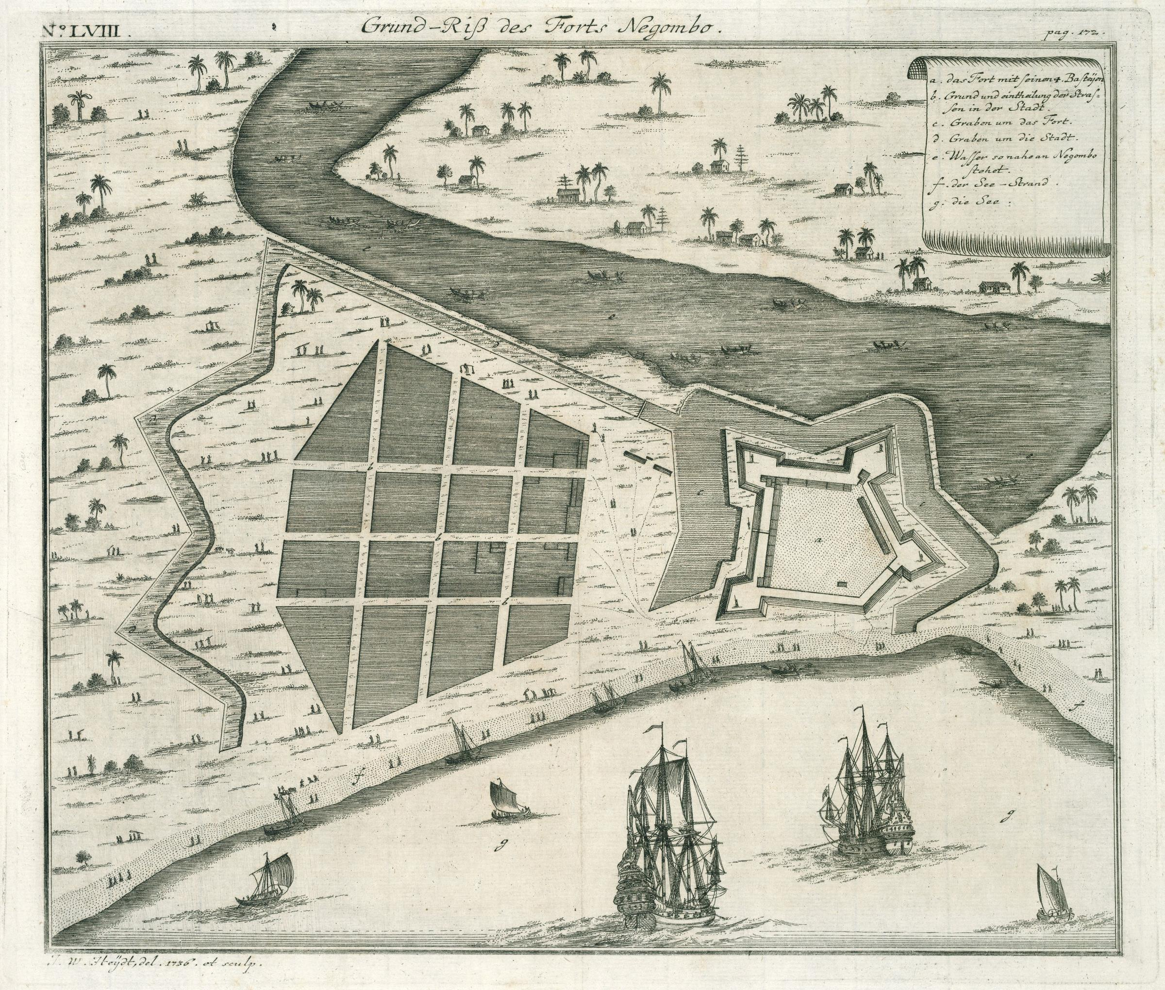 Map of the Negombo fort. Grund-Riß des Forts Negombo. Top left: No: LVIII. Top right: pag. 172. Key: a. das Fort mit seinen 4. Basteijen / b. Grund und eintheilung der Strassen in der Stadt. / c. Graben um das Fort. / Graben um die Stadt. / e. Wasser so nahe an Negombo stehet. / f. der See-Strand. / g. die See.